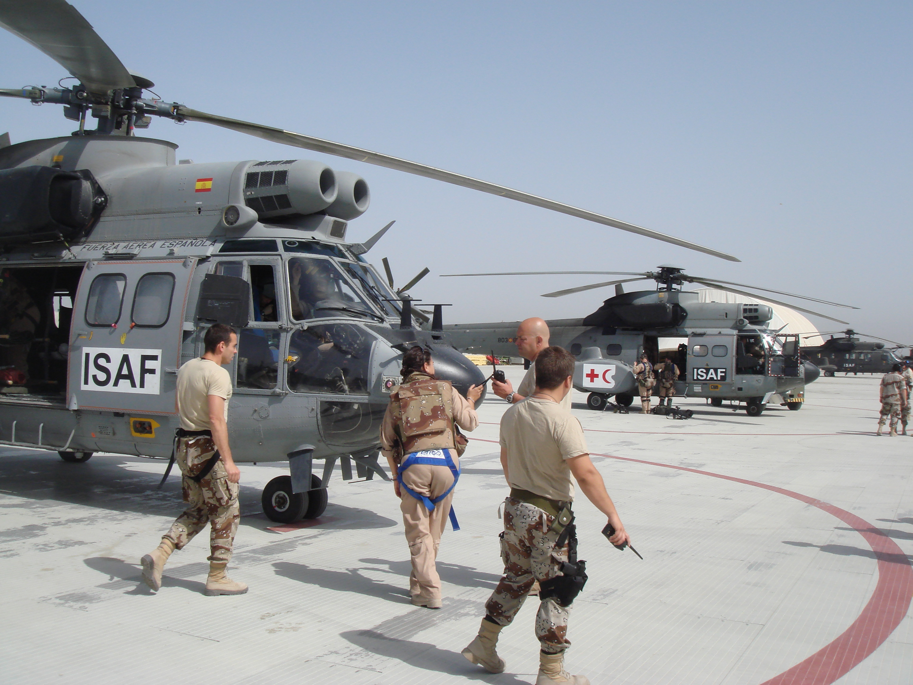 ISAF transport helicopters of Spain